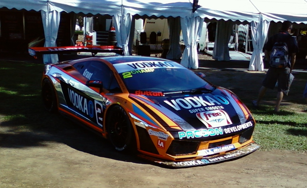 The Lamborghini Gallardo of Dean Grant at the Adelaide Parklands Circuit for the opening round of the 2010 Australian GT Championship